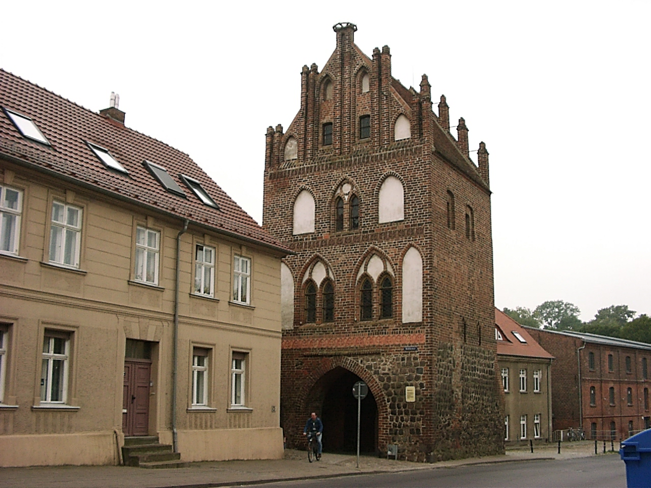 Mill Gate in the town wall of Templin, Brandenburg, Germany.